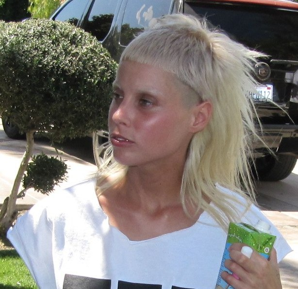 Cropped version of the image File:Xeni Jardin, Yo-Landi (die Antwoord) & Philip Nelson.jpg